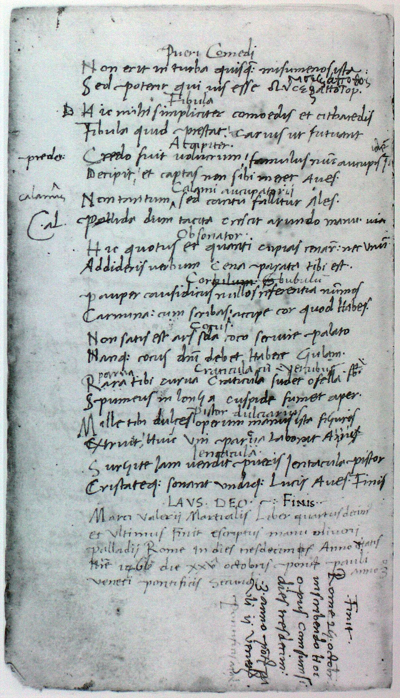 The end of the fourth book of the „Epigrams“ in the manuscript Vatican City, Biblioteca Apostolica Vaticana, Vat. lat. 2823, fol. 180v.